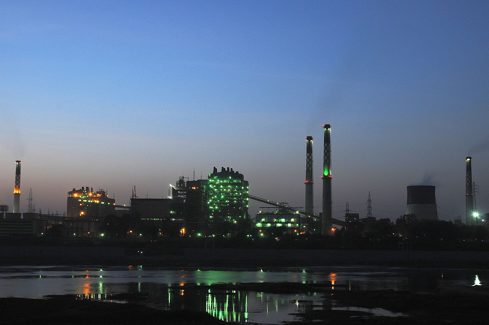 Description - The Sabarmati Thermal Power Station now Torrent Power Station situated on the banks of River Sabarmati, made famous by Mahatma Gandhi's Ashram by the same name is not only one of the oldest Thermal Plants in the country (1934), but also one of the most well run.